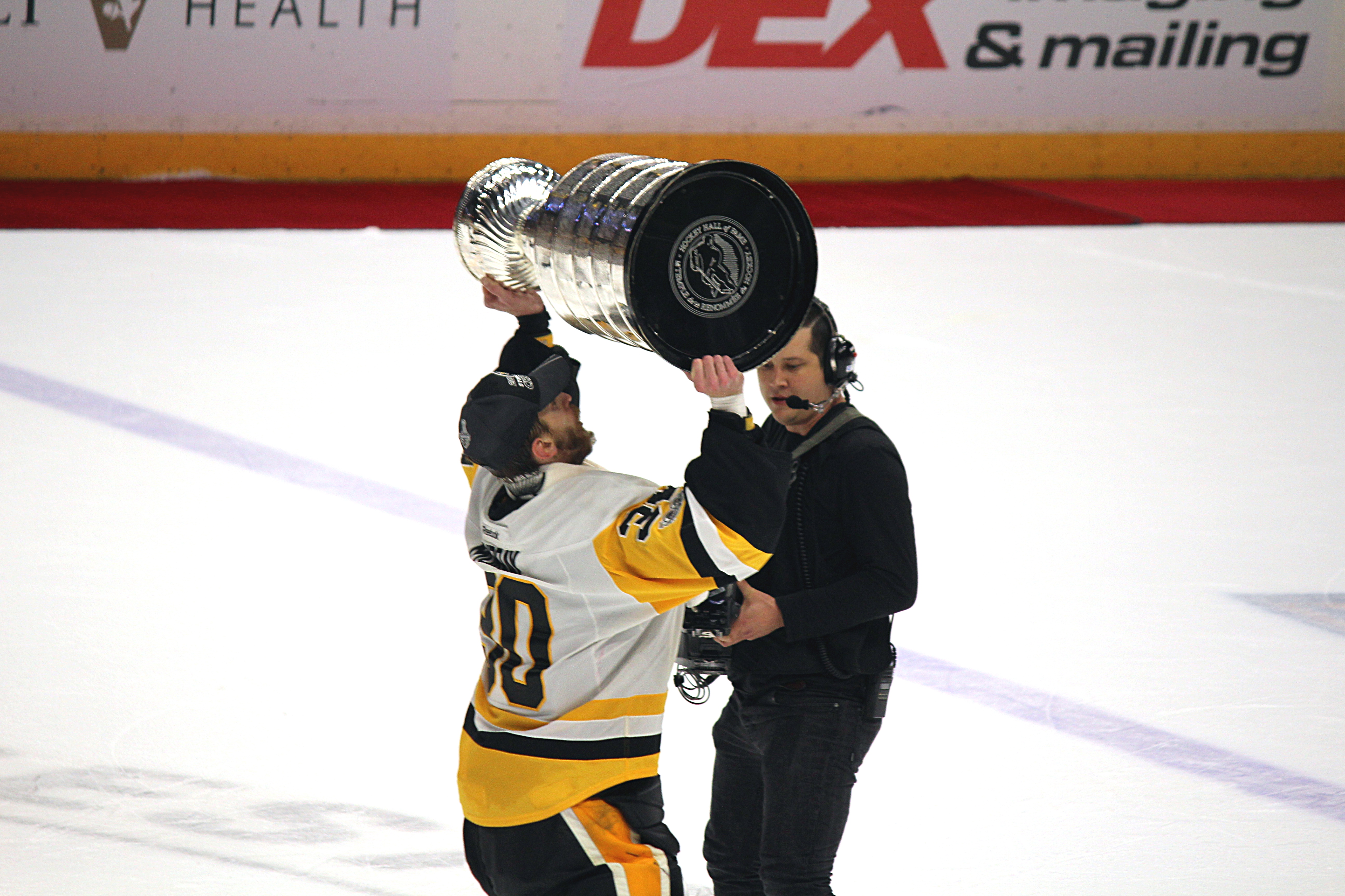 Pittsburgh Penguins goalie Matt Murray raises the Stanley Cup in Nashville in 2017.